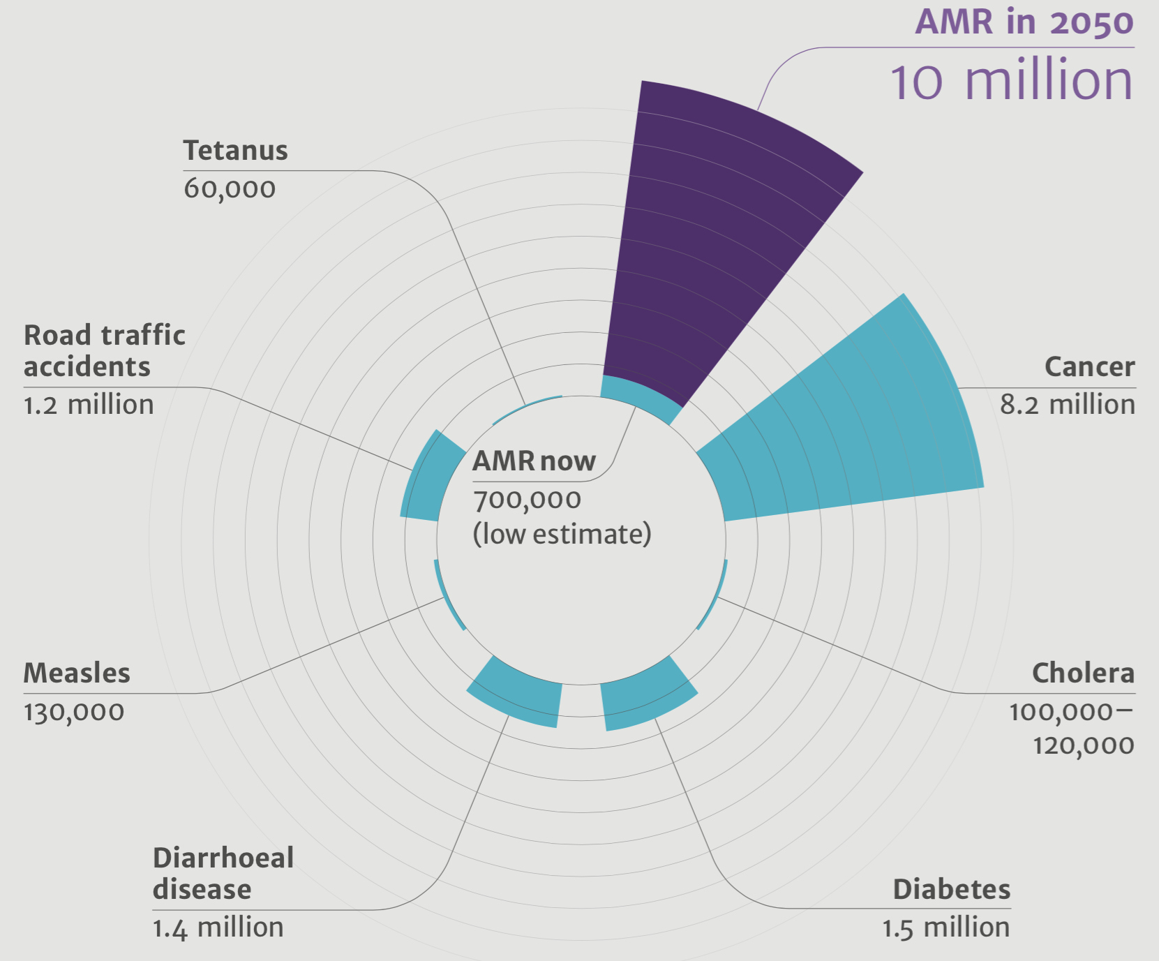 Deaths attributable to antimicrobial resistance every year compared to other major causes of death. Deaths attributable to AMR every year compared to other major causes of death Diabetes – Cancer – Cholera – Diarrhoeal disease – Measles – Road traffic accidents – Tetanus